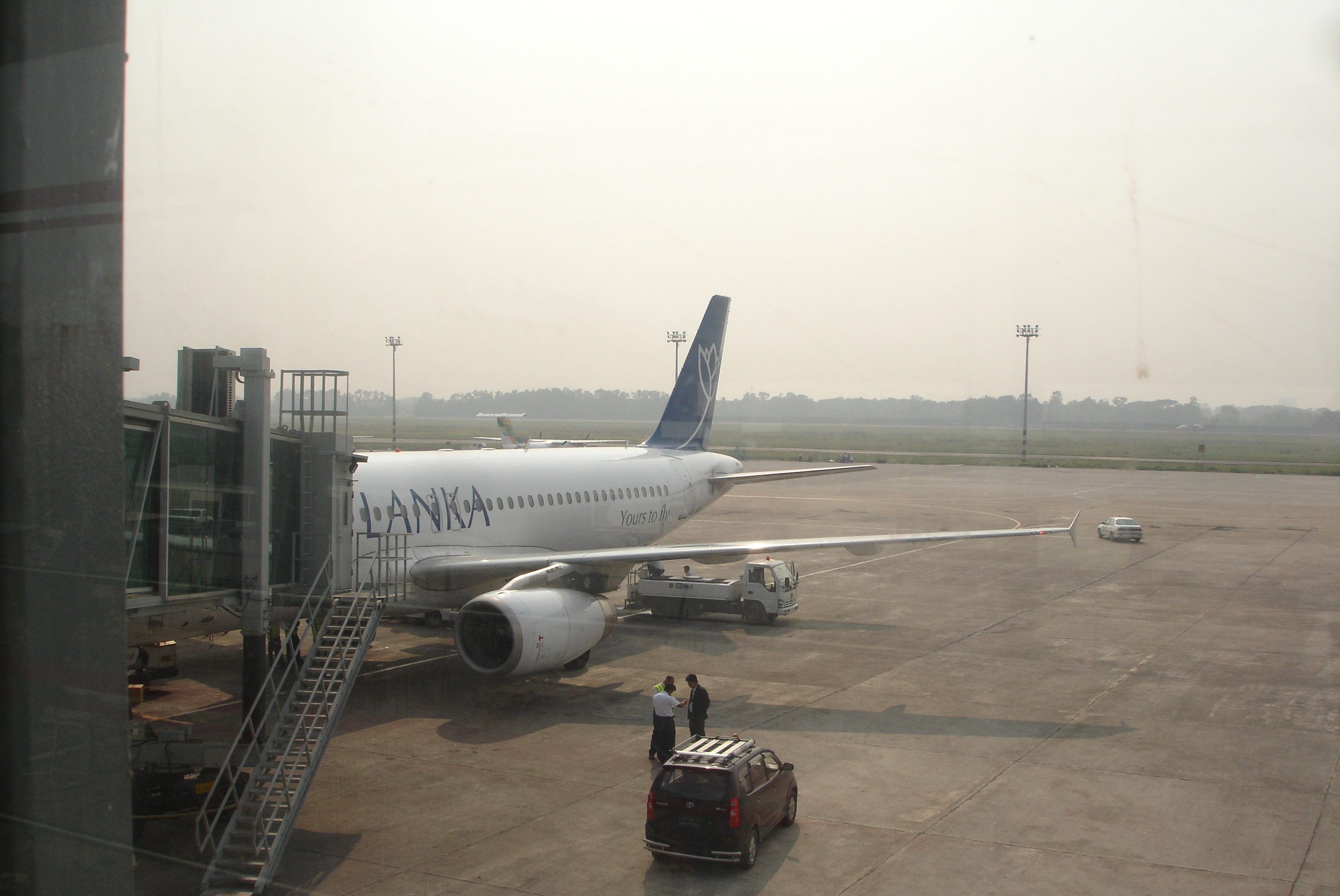 Mihin Lanka A320-232 at Shahjalal Airport for the first time